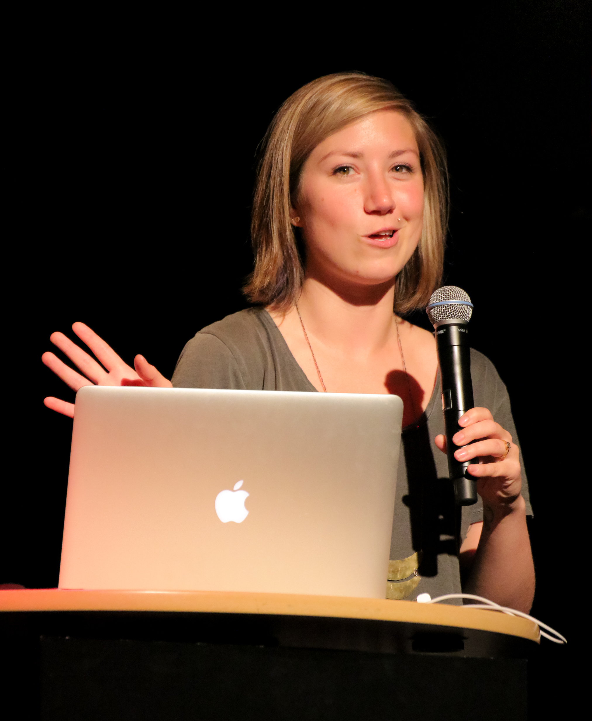 The american letterer and illustrator Jessica Hische at the beyond tellerrand conference 2014 in Düsseldorf